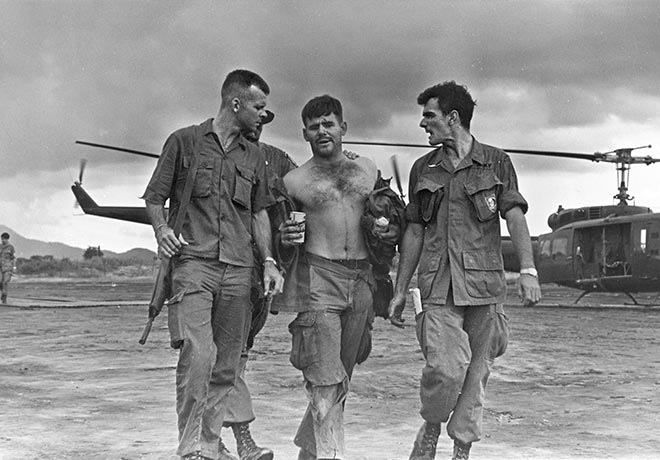 U.S. Army Sgt. Gary M. Rose is helped from a helicopter landing area after Operation Tailwind, 1970.